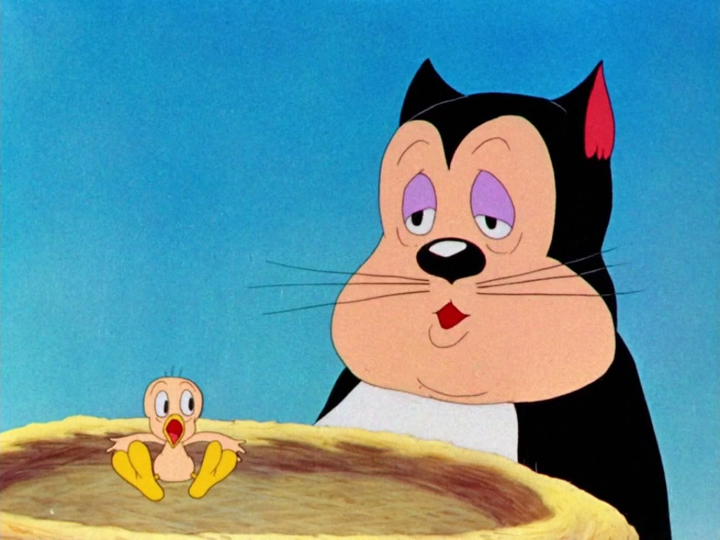 Tweety Bird in his moment of debut with Catstello. Taken from Looney Tunes Golden Collection Volume 5 DVD set.